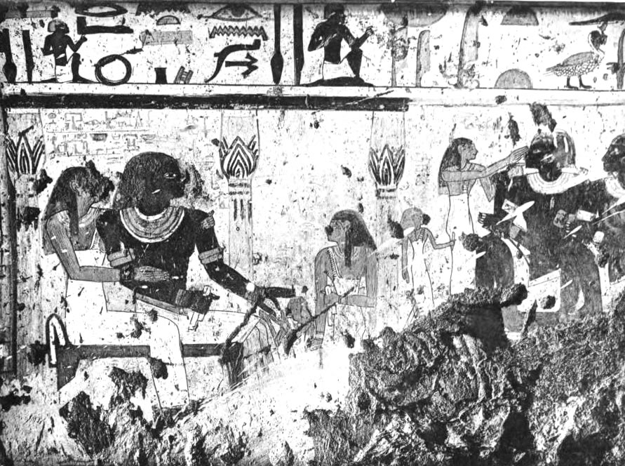 Wall painting in the Theban tomb chapel of Tetiky